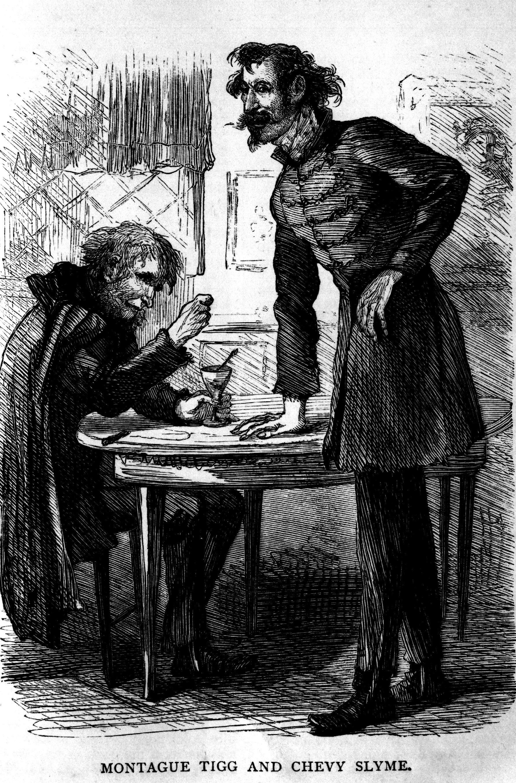 Illustration from 1867 U.S. edition of Martin Chuzzlewit. Page 64. "Montague Tigg and Chevy Slyme"